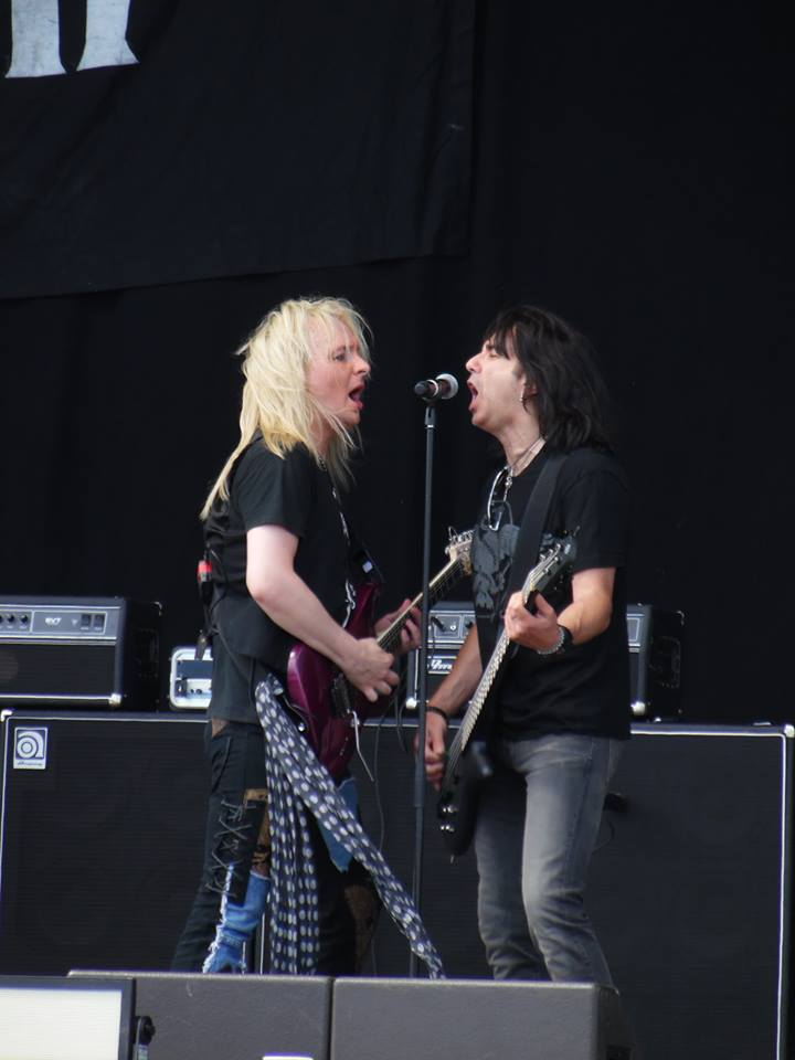 Robert Marcello and Bruno Ravel of the band "Danger Danger" at Sweden Rock 2014